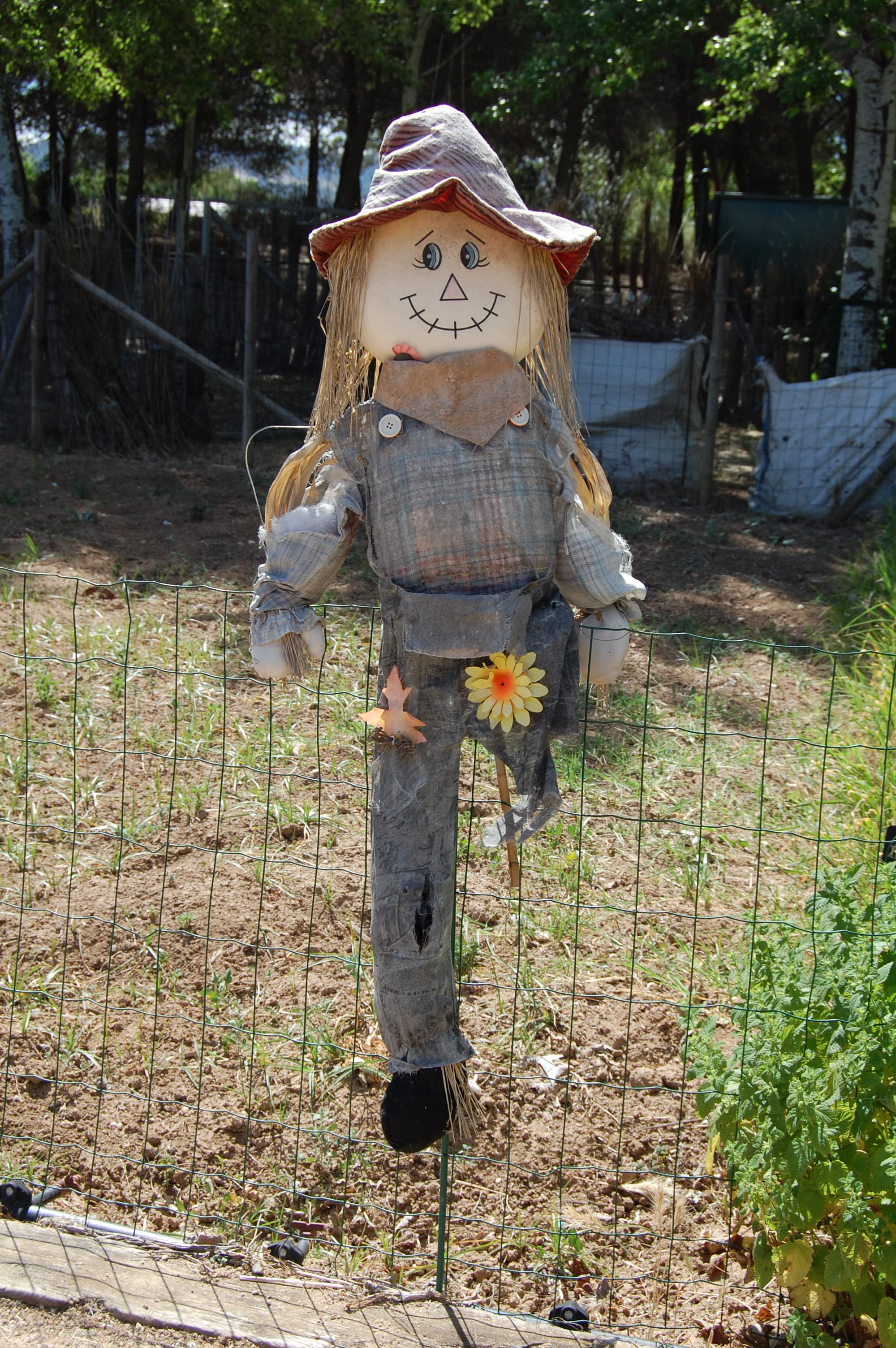 Royal Botanic Gardens, Juan Carlos I, located on the campus of Alcalá de Henares (University of Alcalá). Founded in 1990. Scarecrows.